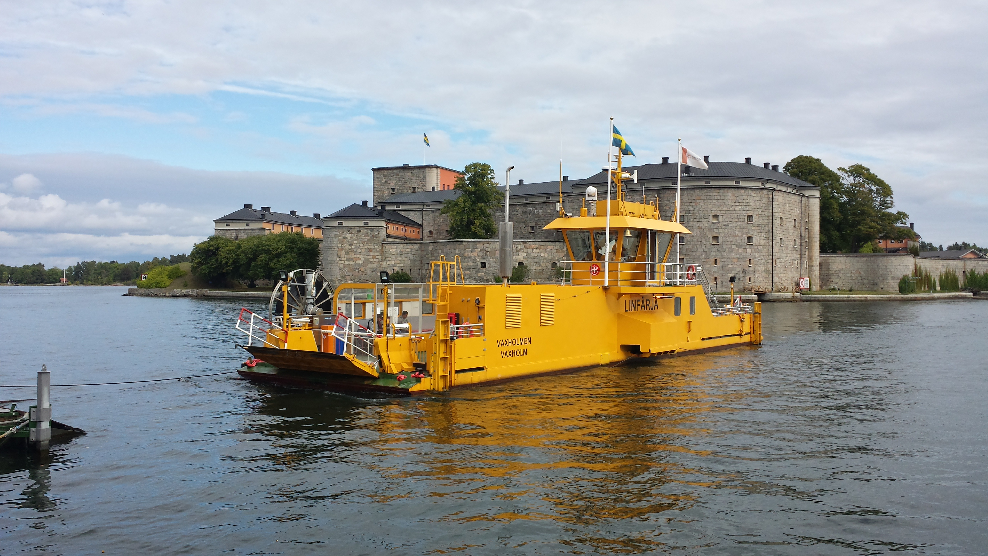 The Kastelletleden cable ferry at Vaxholm is Sweden's Stockholm archipelago. Vaxholm Castle can be seen in the background.